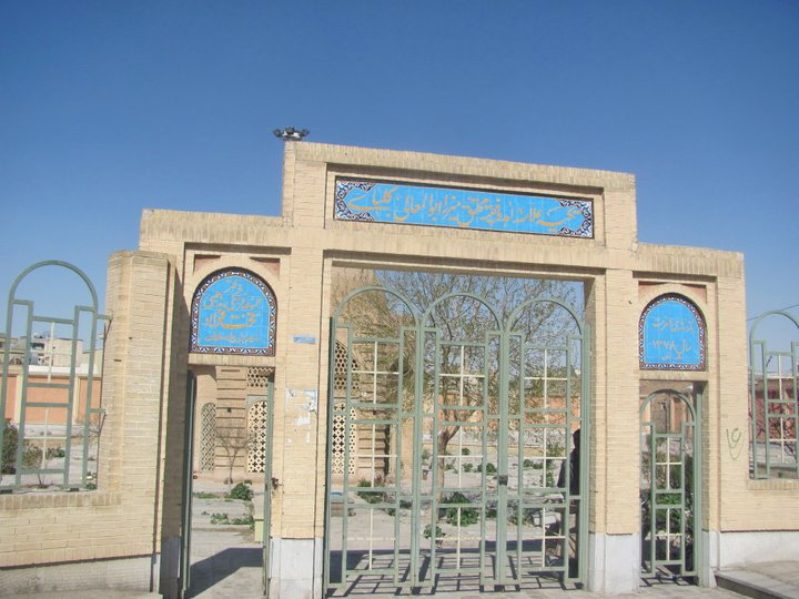 Tekiye Kalbasi